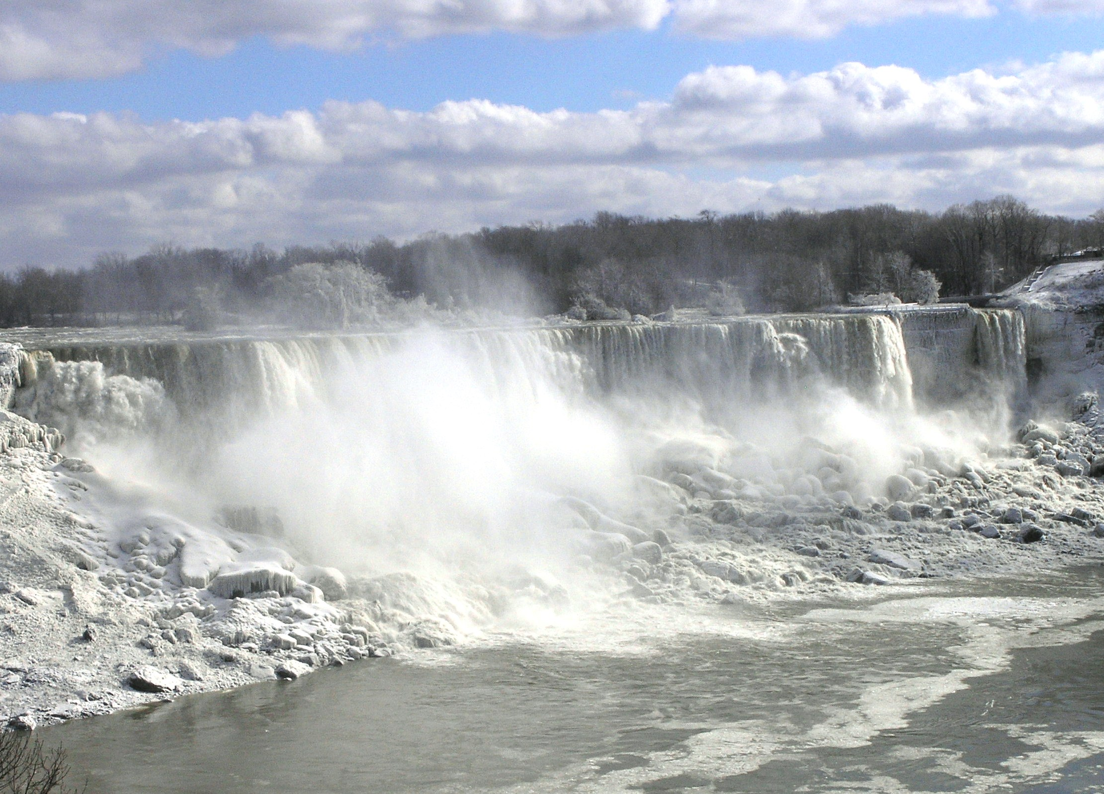 Taken by Daniel Mayer in late February 2006.